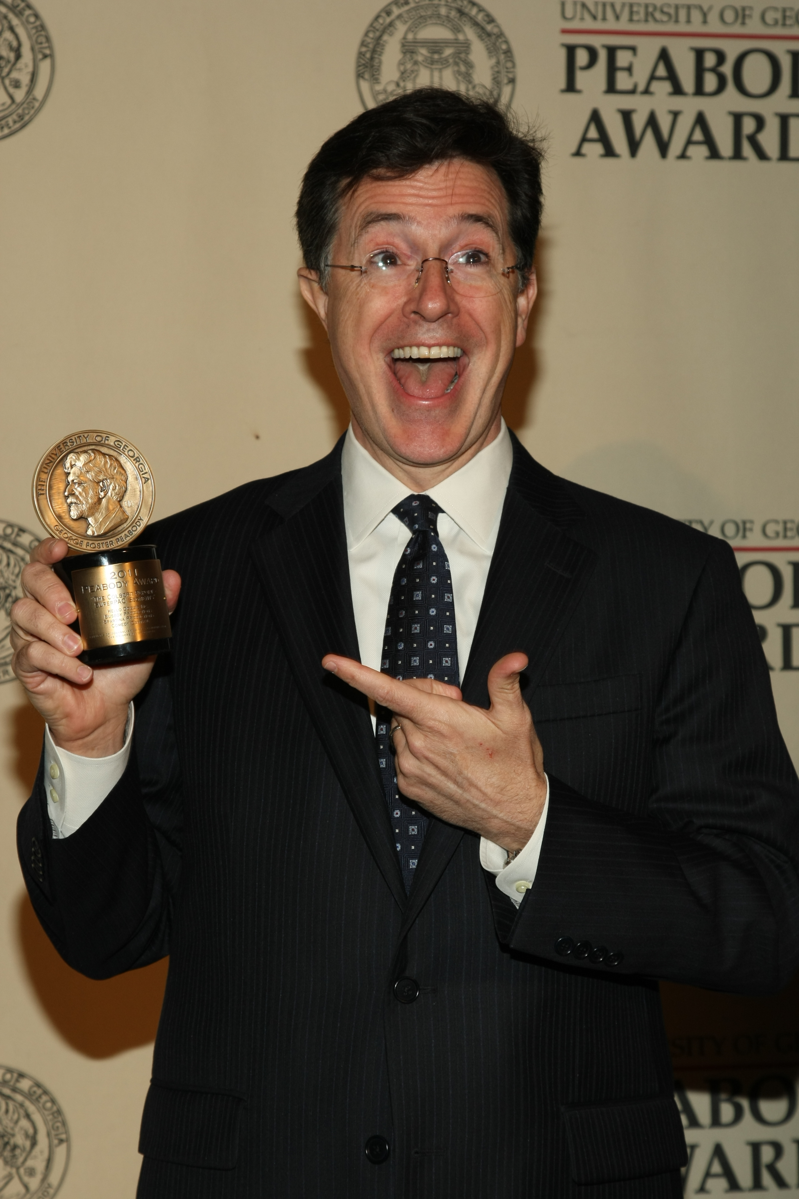 PHOTO CREDIT: ANDERS KRUSBERG / PEABODY AWARDS 71st Annual Peabody Awards Luncheon Waldorf=Astoria Hotel May 21, 2012